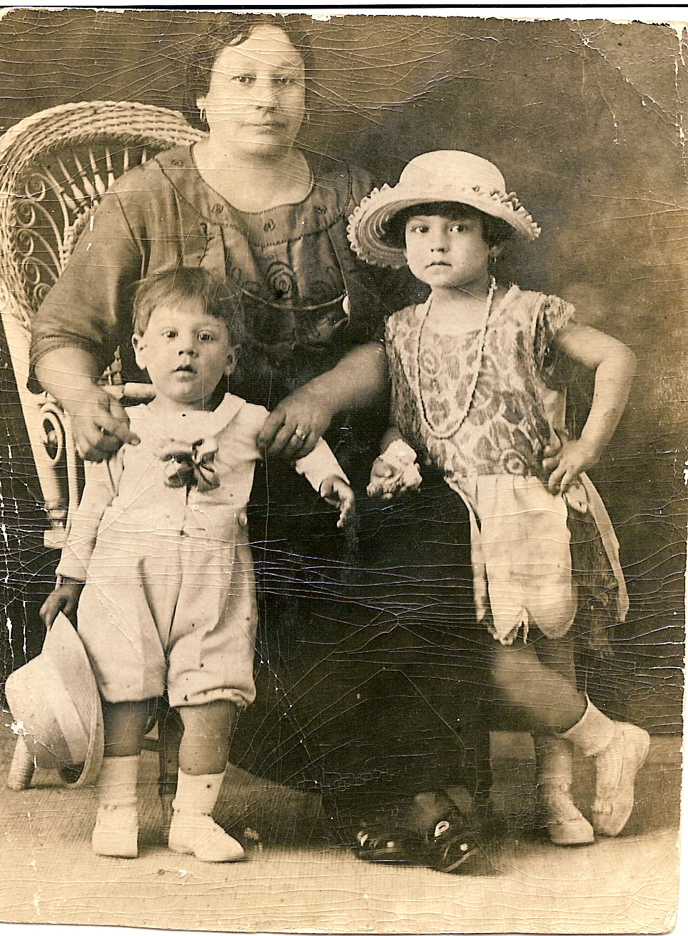 Florentino Medina con su Madre y su Hermana Mayor